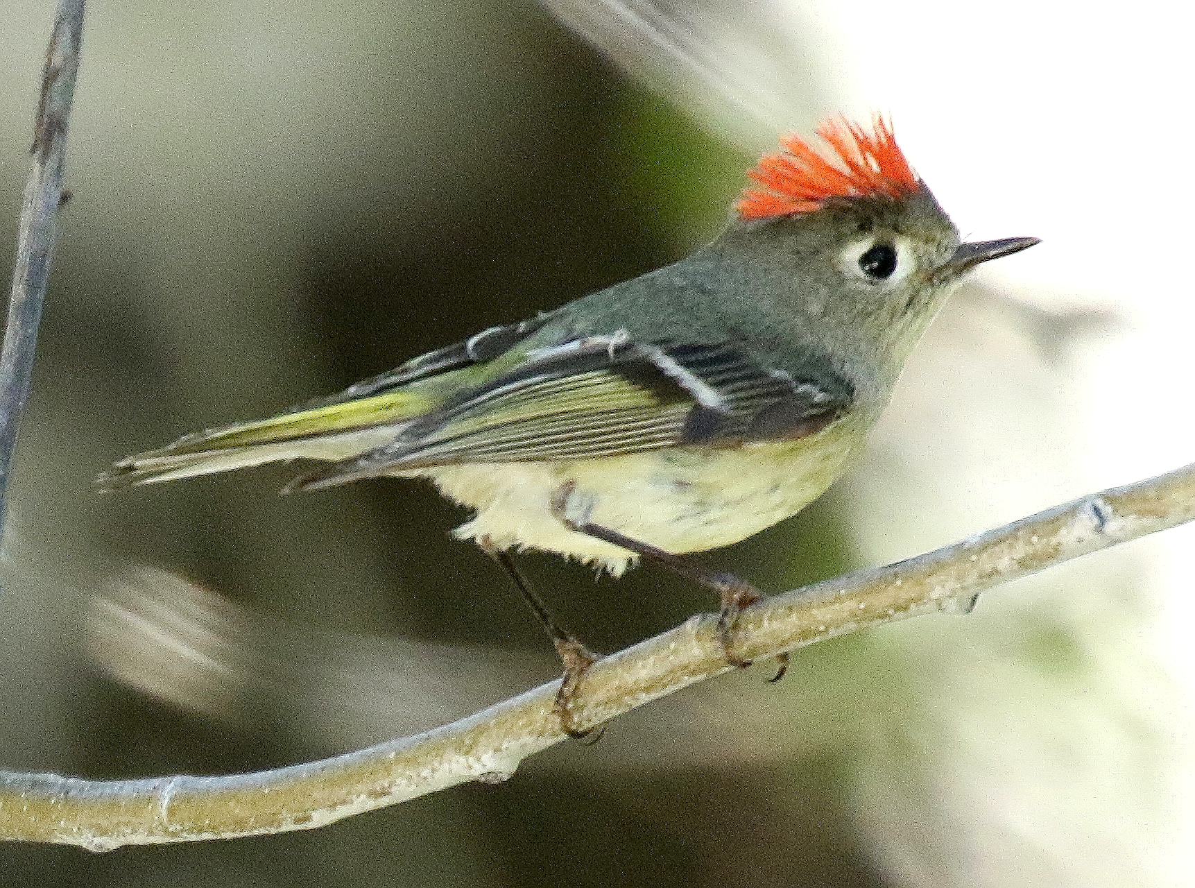 Twin Falls area - Idaho